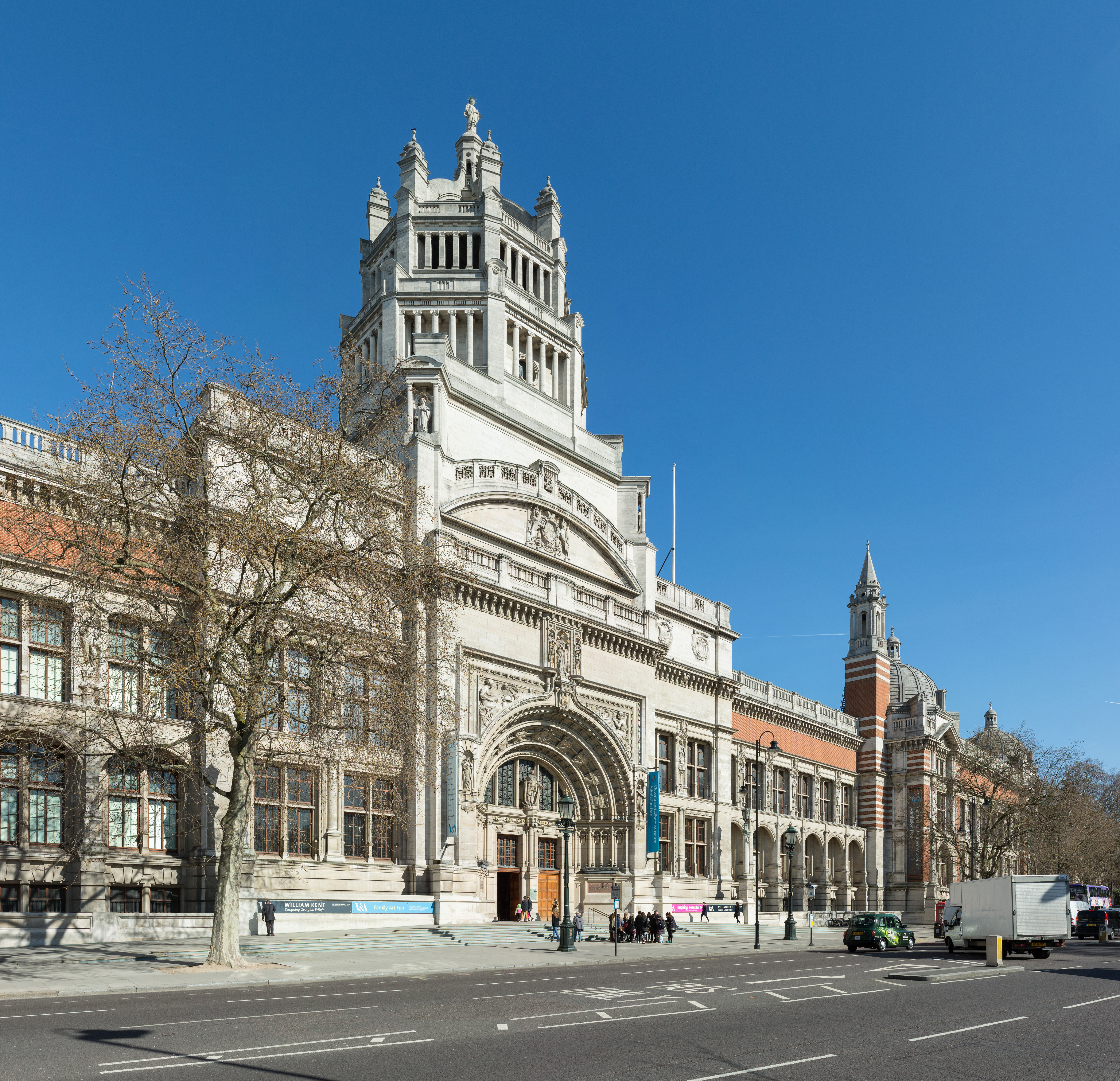 The southern entrance of the Victoria and Albert Museum in London, England.